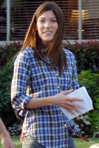 Jennifer Carpenter in Dexter season 5 - 1st day of shooting in Long Beach, CA.